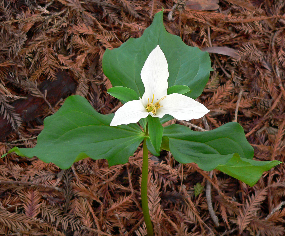 Photo of Trillium ovatum ssp. ovatum at the Regional Parks Botanic Garden, Berkeley, California